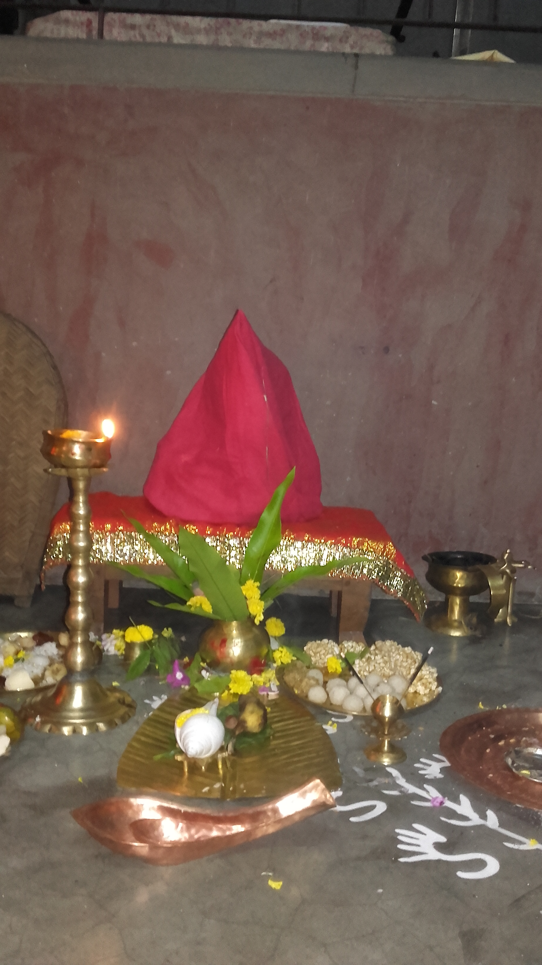 কলার বের দিয়ে দেবী লক্ষ্মী কল্পনা